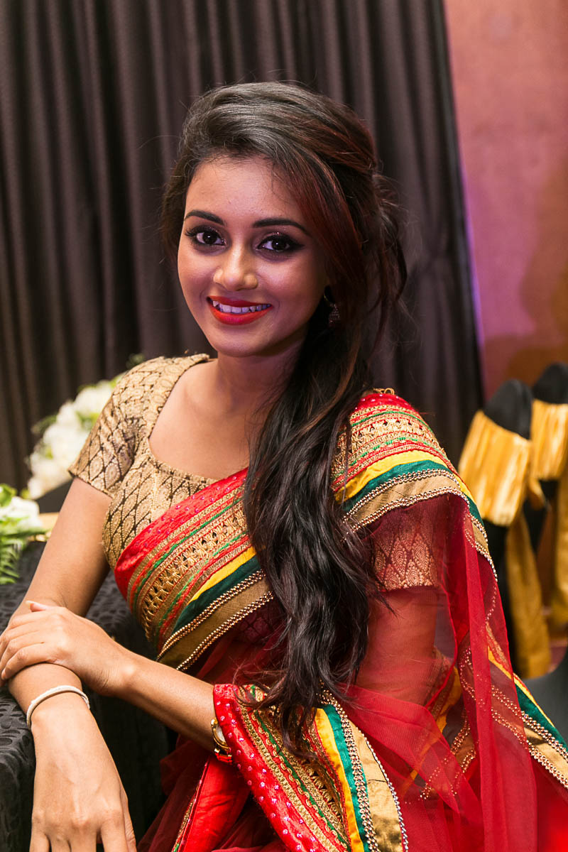 Picture of Dinakshie taken at a friends wedding.